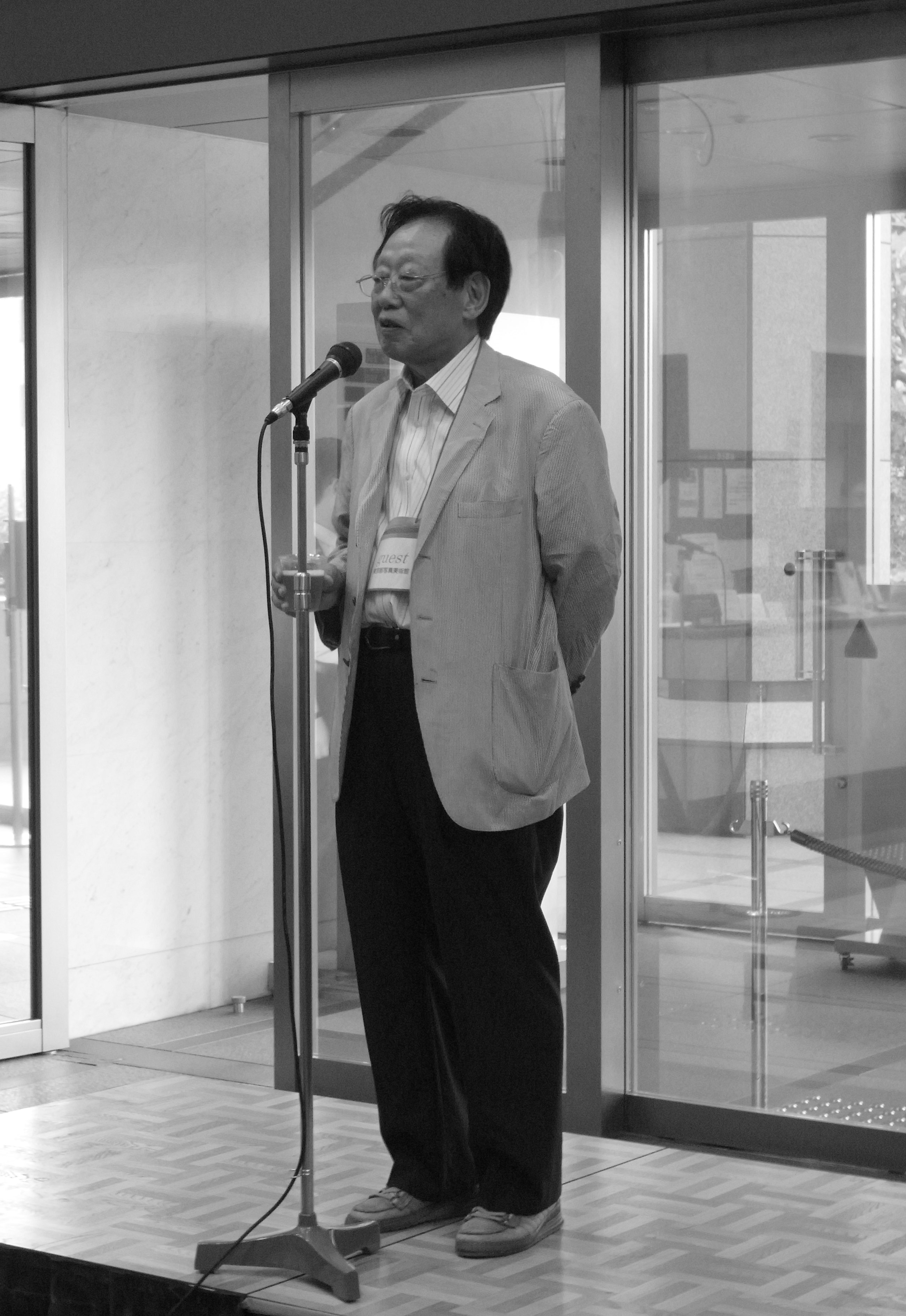 The photographer Takeyoshi Tanuma (田沼武能) speaks before raising a toast to Hiroh Kikai (鬼海弘雄) at the reception for the exhibition of Kikai's "Tokyo Portraits" (東京ポートレイト), at the Tokyo Metropolitan Museum of Photography (東京都写真美術館), 12 August 2011